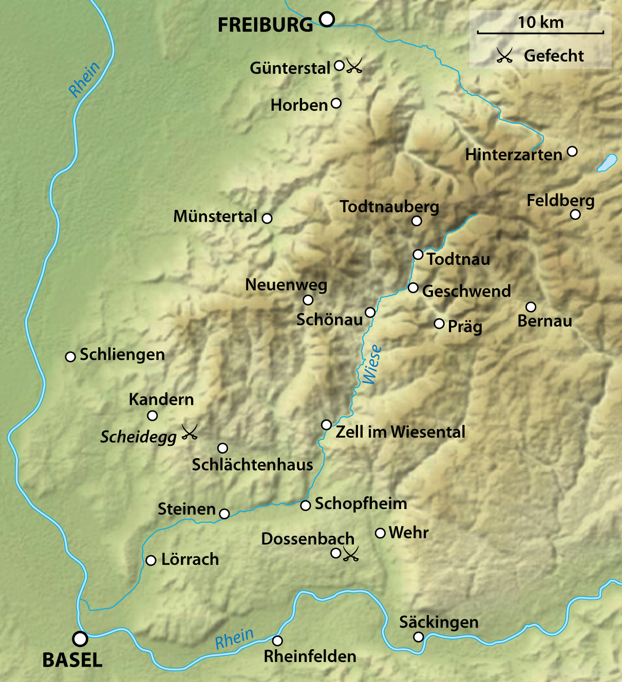 Map showing important places in 1848/49 revolution in Baden